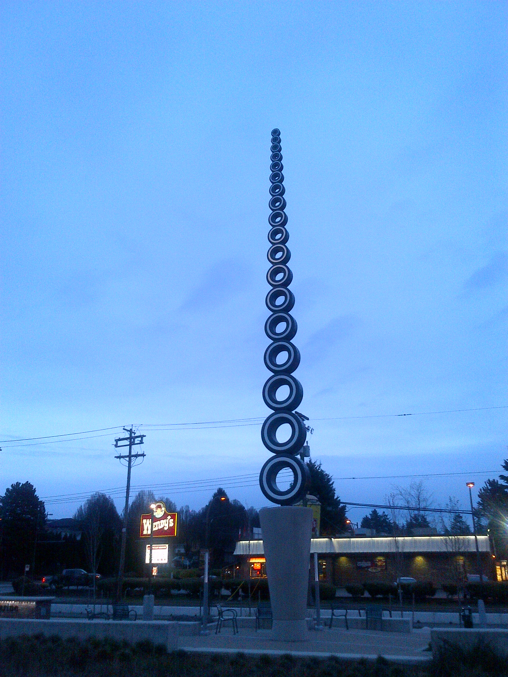 Infinite Tires public art in Vancouver, Canada